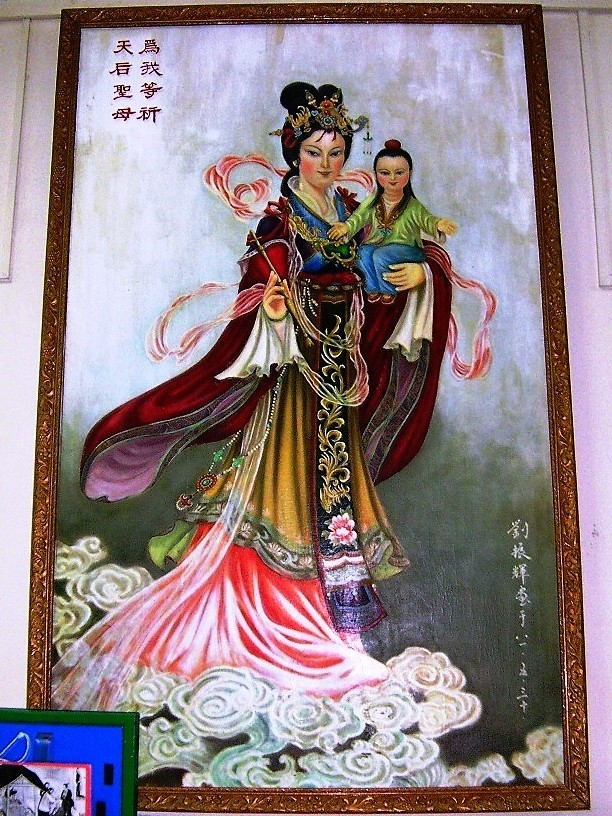 Painting of Chinese Madonna, St. Francis' Church, Macao SANYO DIGITAL CAMERA